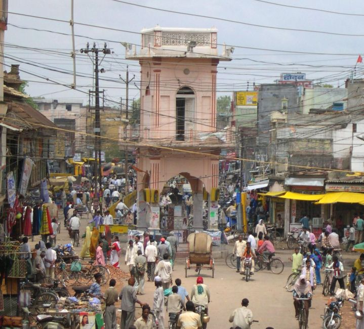 Ghantagahr Damoh